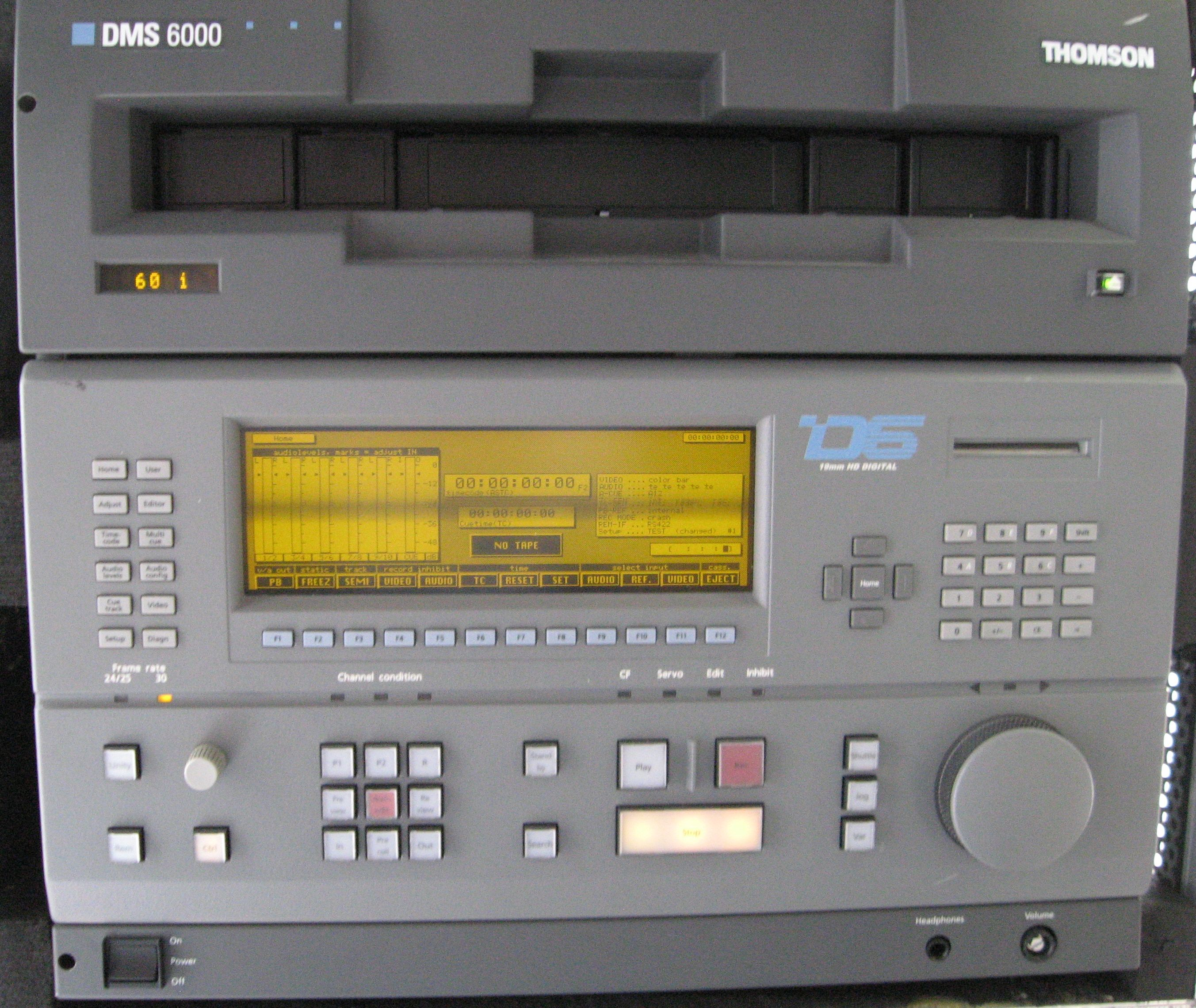 telecineguy My own Work D6 VTR Tape Deck